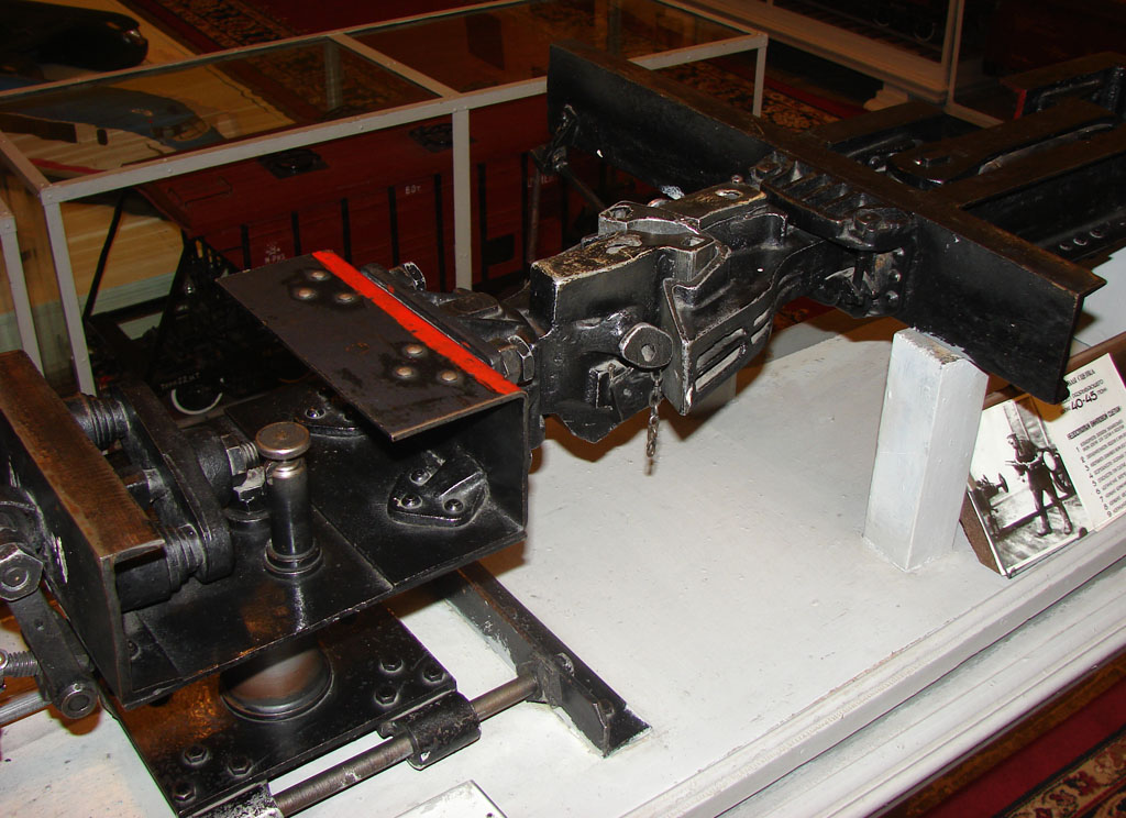 Soviet automatic coupling, type 3